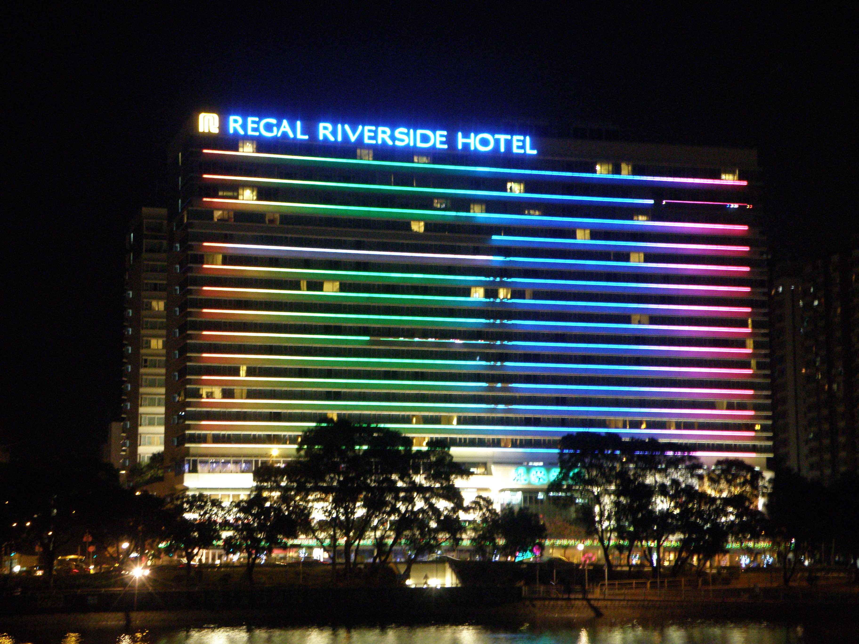 Regal Riverside Hotel in Yuen Chau Kok, Hong Kong.